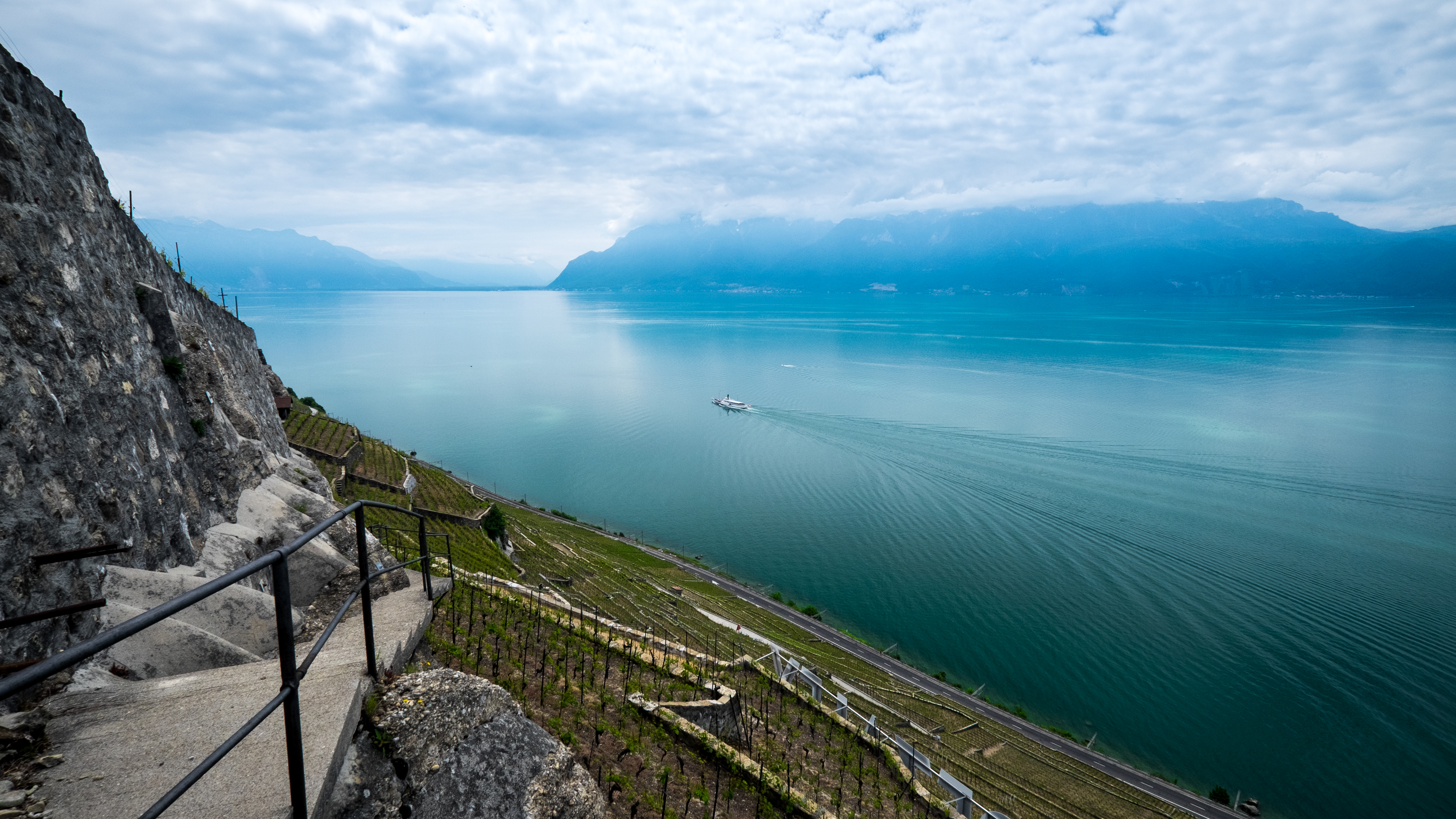 Lac Léman